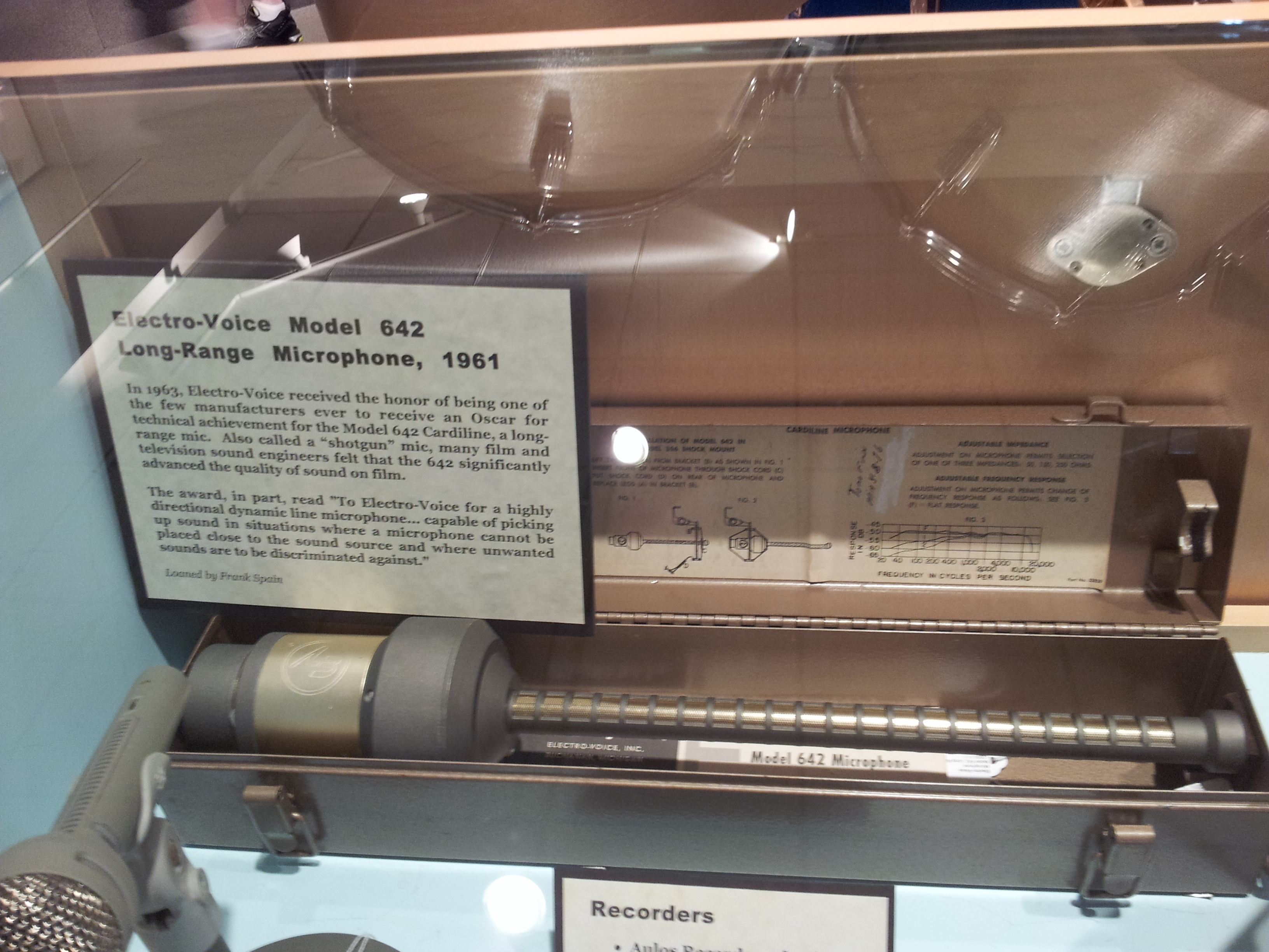 Electro-Voice Model 642 Long-Range Microphone, 1961 In 1963, Electro-Voice received the honor of being one of the few manufacturers ever to receive an Oscar for technical achievement for the Model 642 Cardiline, a long- range mic. Also called a “shotgun” mic, many film and television sound engineers felt that the 642 significantly advanced the quality of sound on film. The award, in part, read “To Electro-Voice for a highly directional dynamic line microphone... capable of picking up sound in situations where a microphone cannot be placed close to the sound source and where unwanted sounds are to be discriminated against." Loaned by Frank Spain